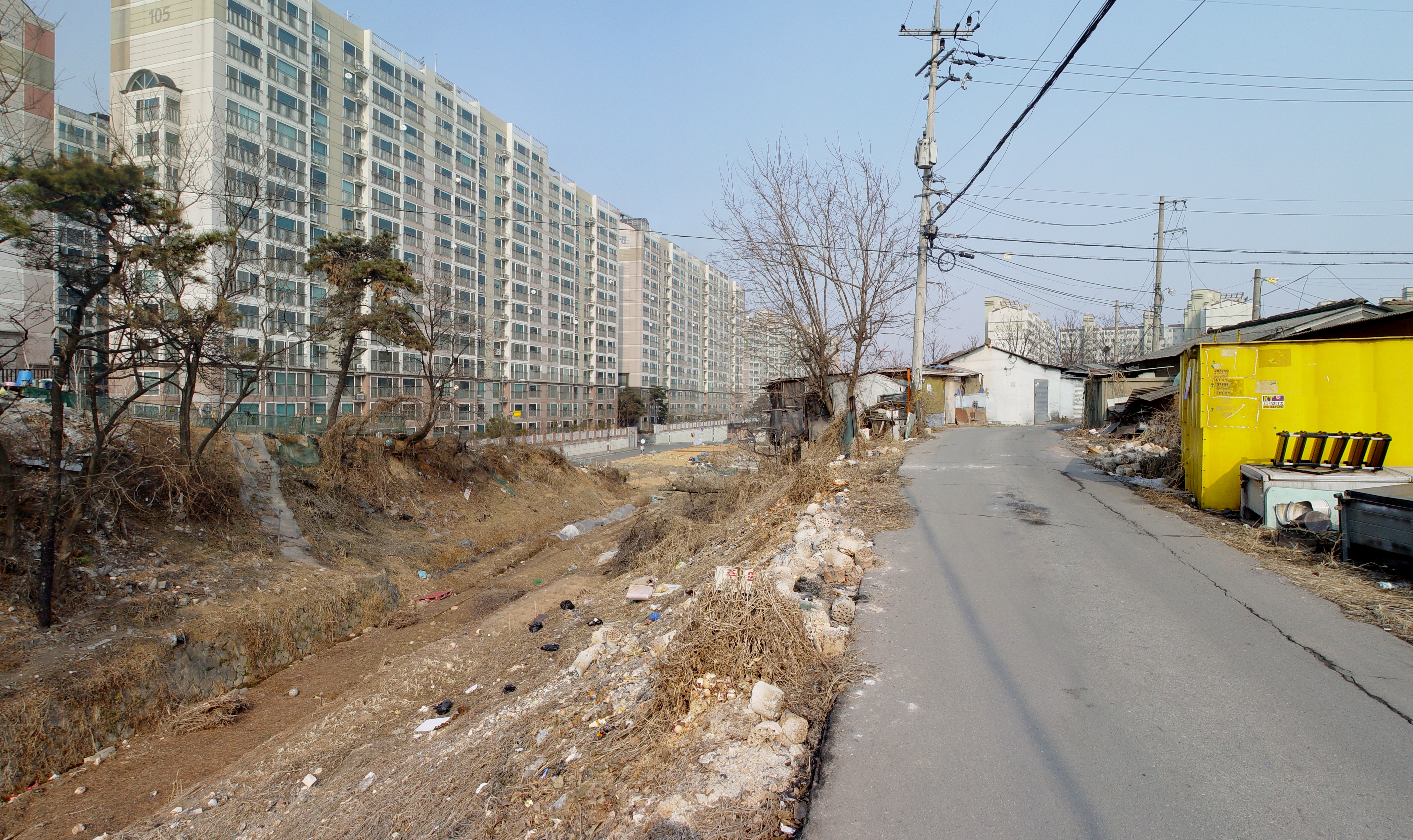 The Suin Line in Omokcheon-dong, Suwon